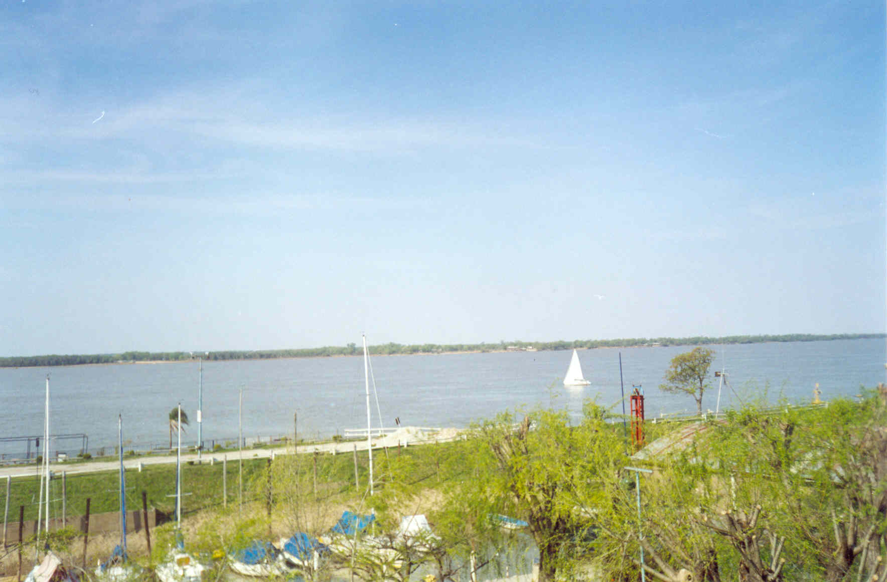 A view of the Paraná River from Rosario, Argentina, located in its western shore.